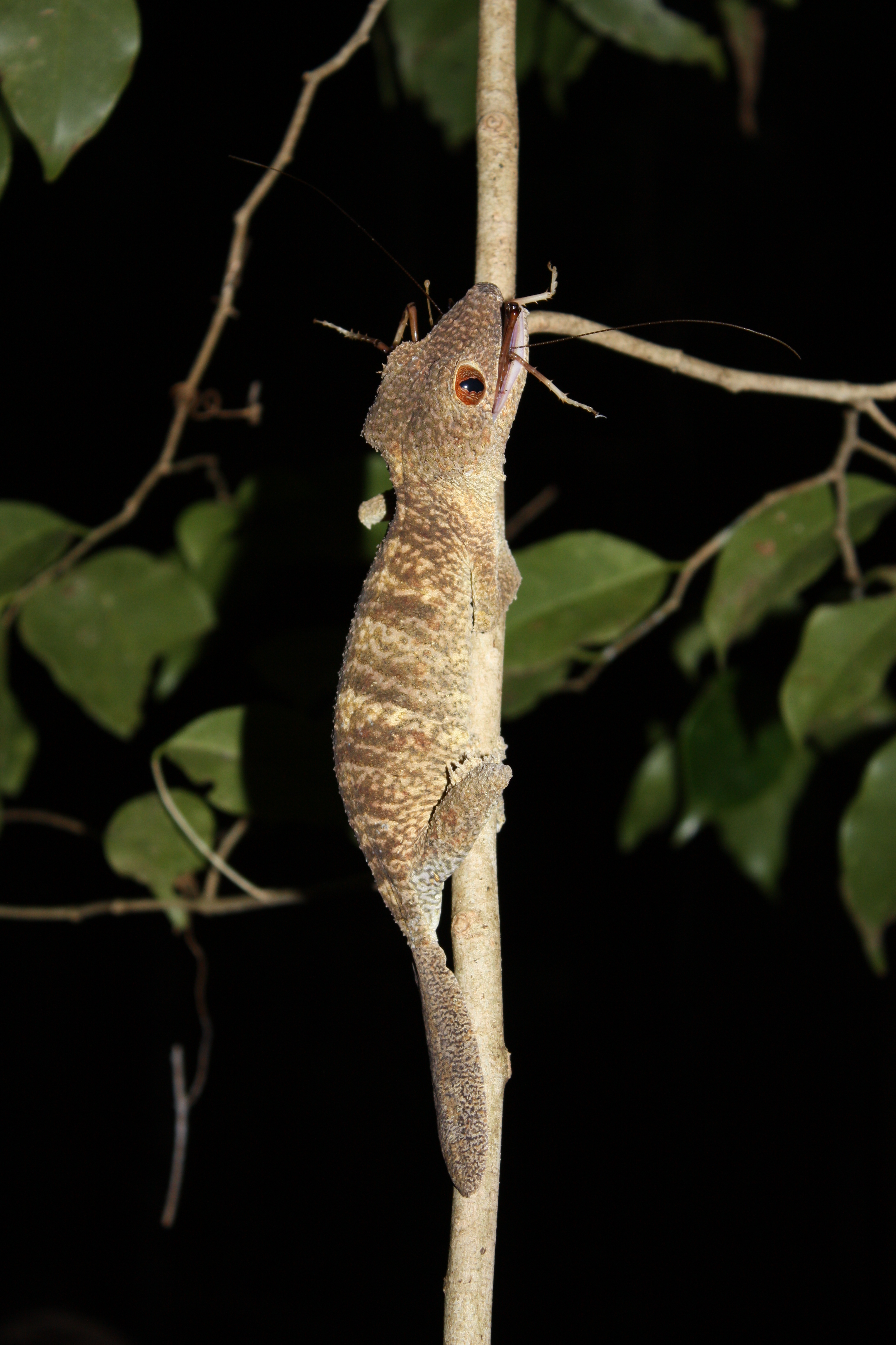 Uroplatus henkeli eating a cricket, Ankarana, N Madagascar